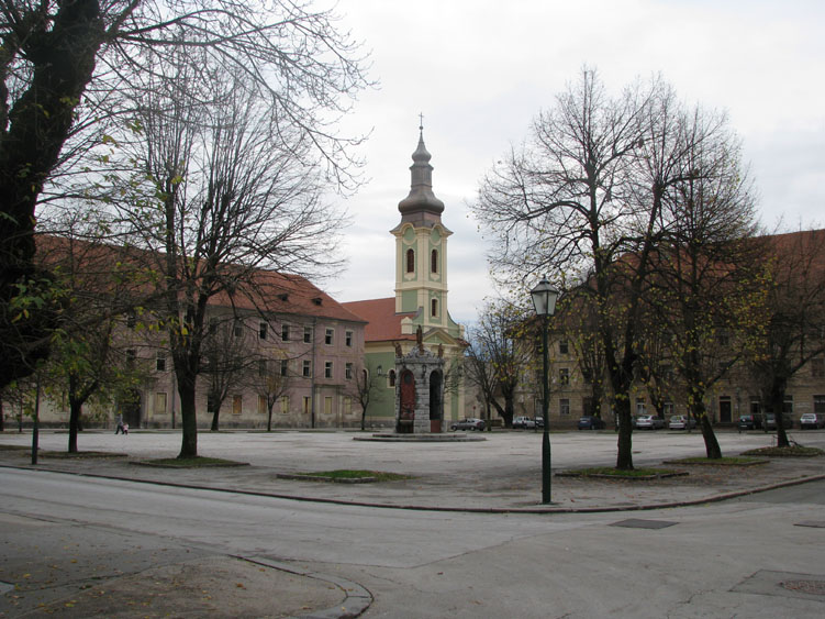 Jelačić's Square, Karlovac